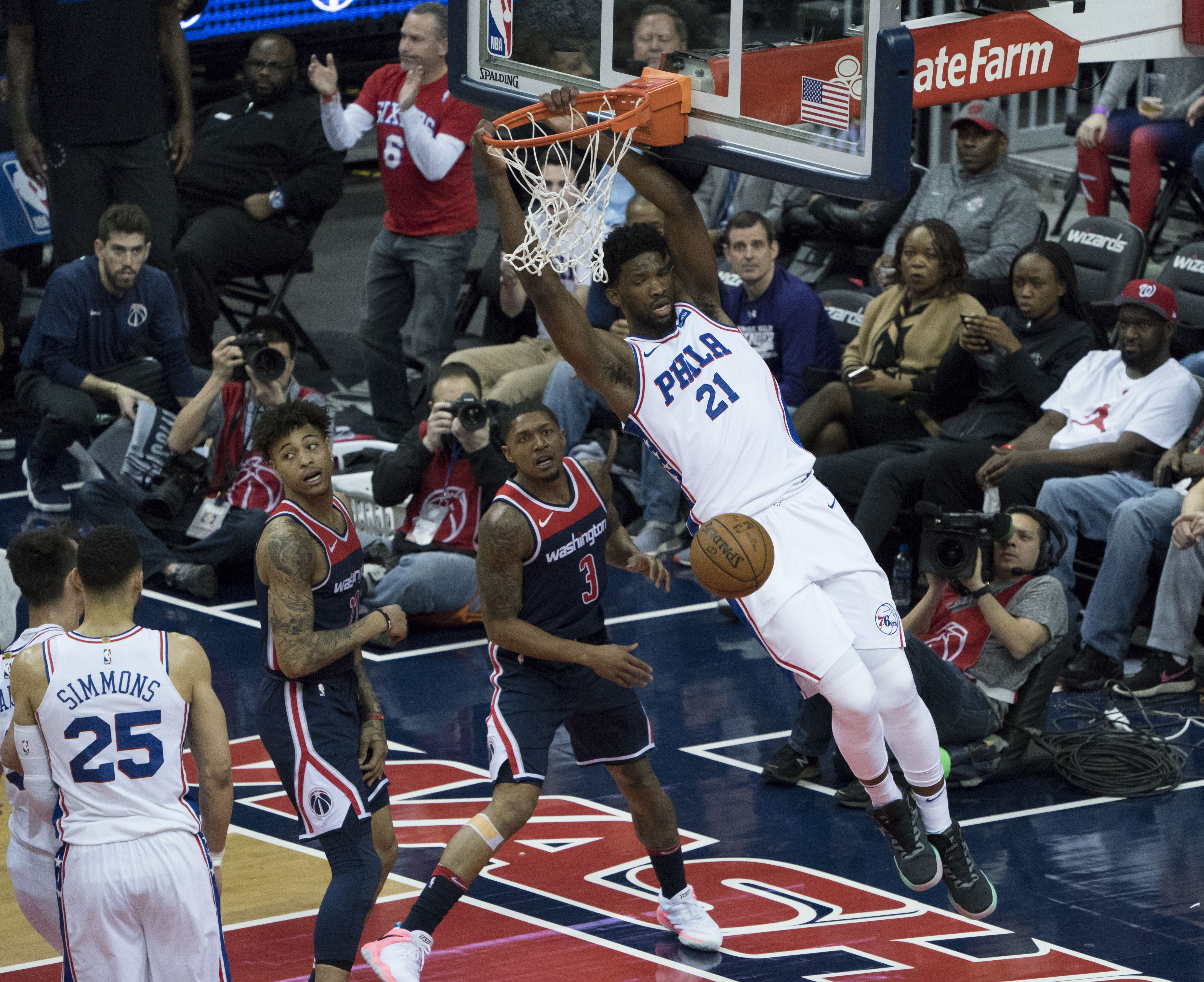 76ers at Wizards 2/25/18